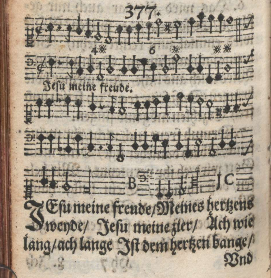 Jesu, meine Freude from Johann Crüger's Lutheran hymnbook Praxis Pietatis Melica published in Berlin in 1653